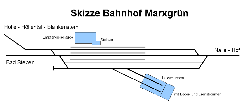 Marxgrün station, track plan in the middle of 20th century